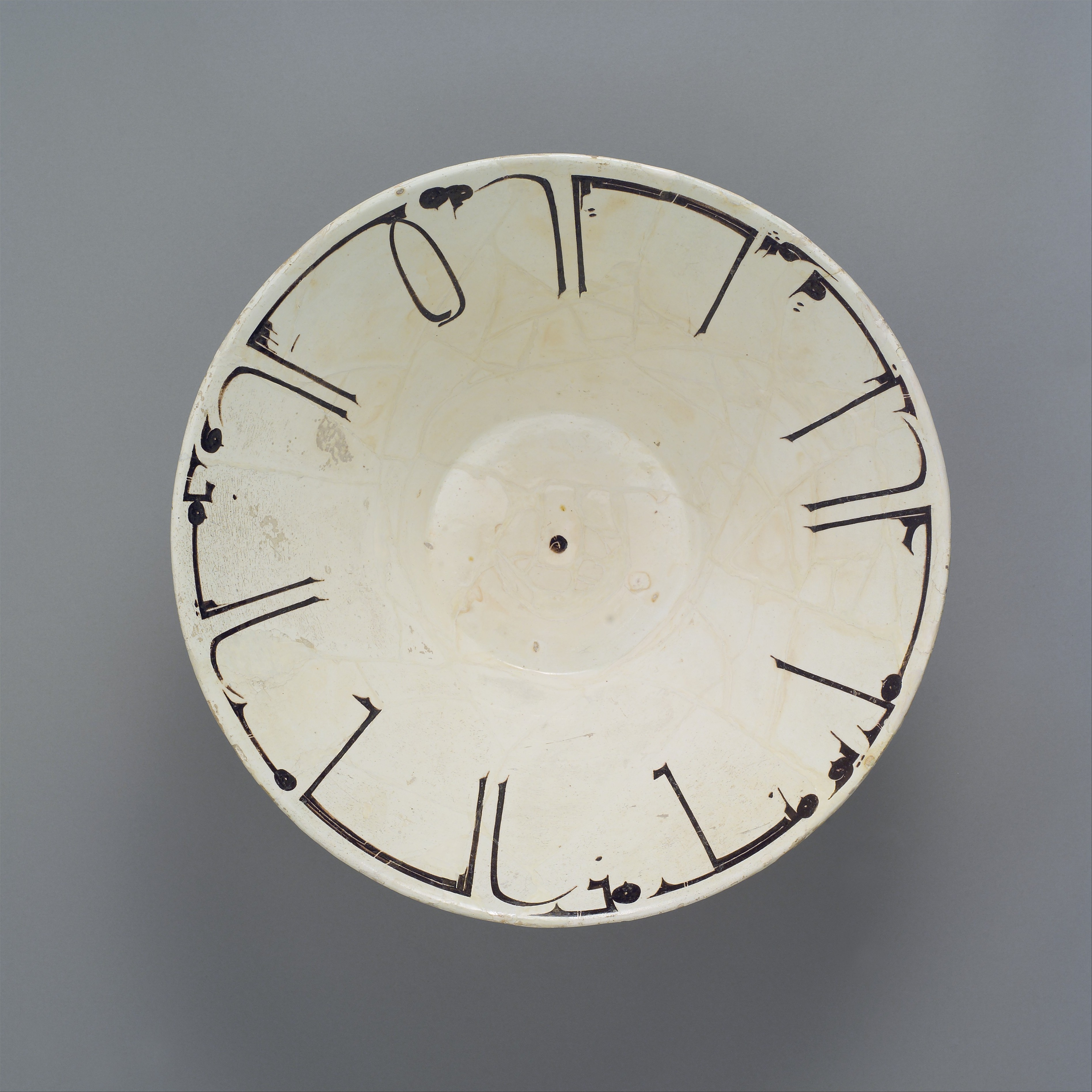 Bowl; Ceramics